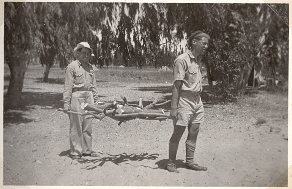 Settlements in Israel